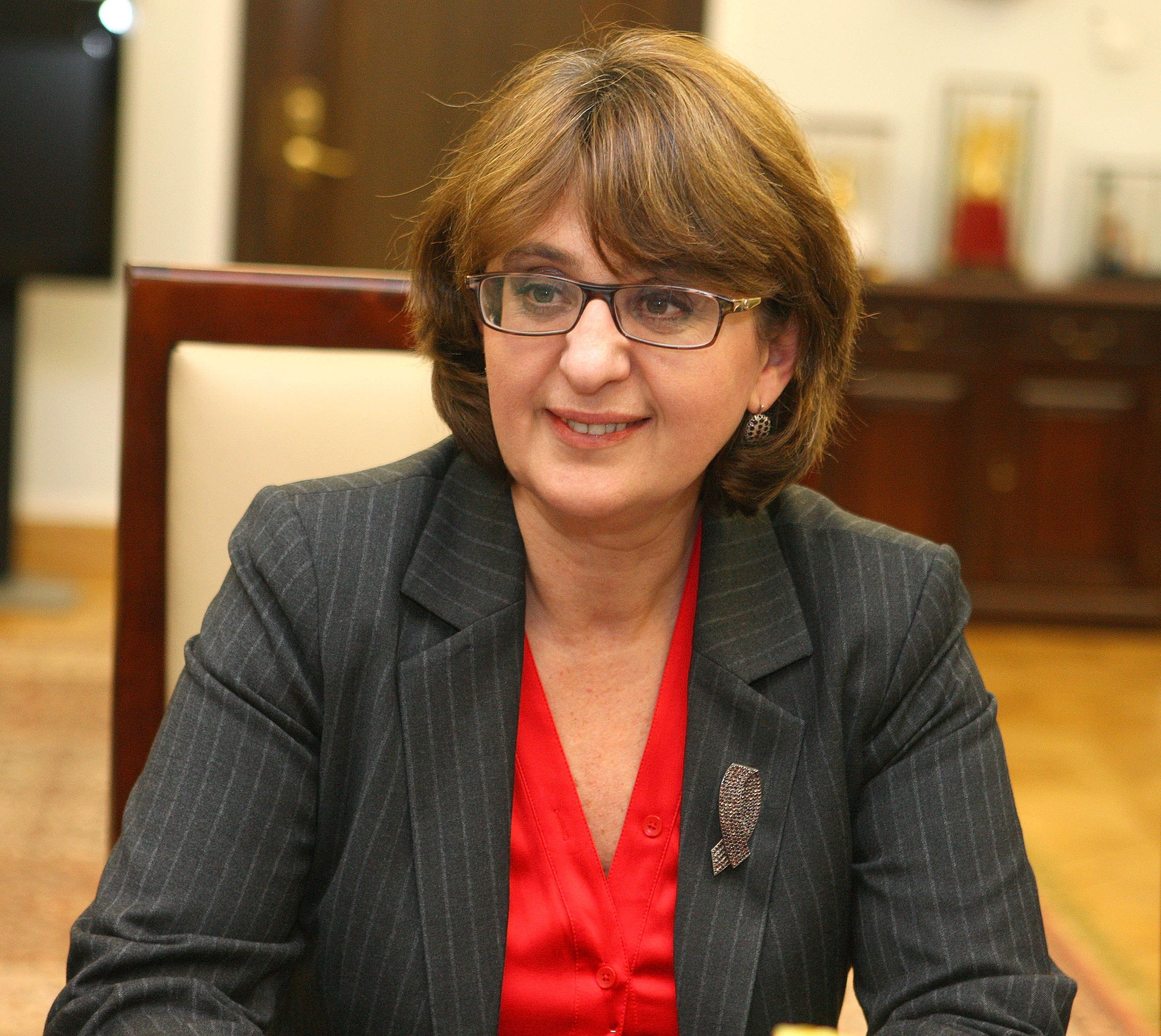 Minister of Foreign Affairs of Georgia Maia Panjikidze in the Polish Senate